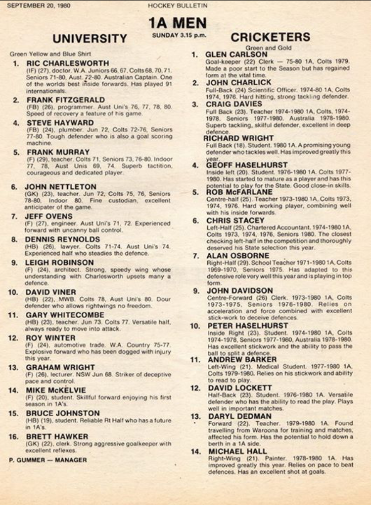 1980 WAHA 1A Grand Final program between UWAHC and Cricketers.